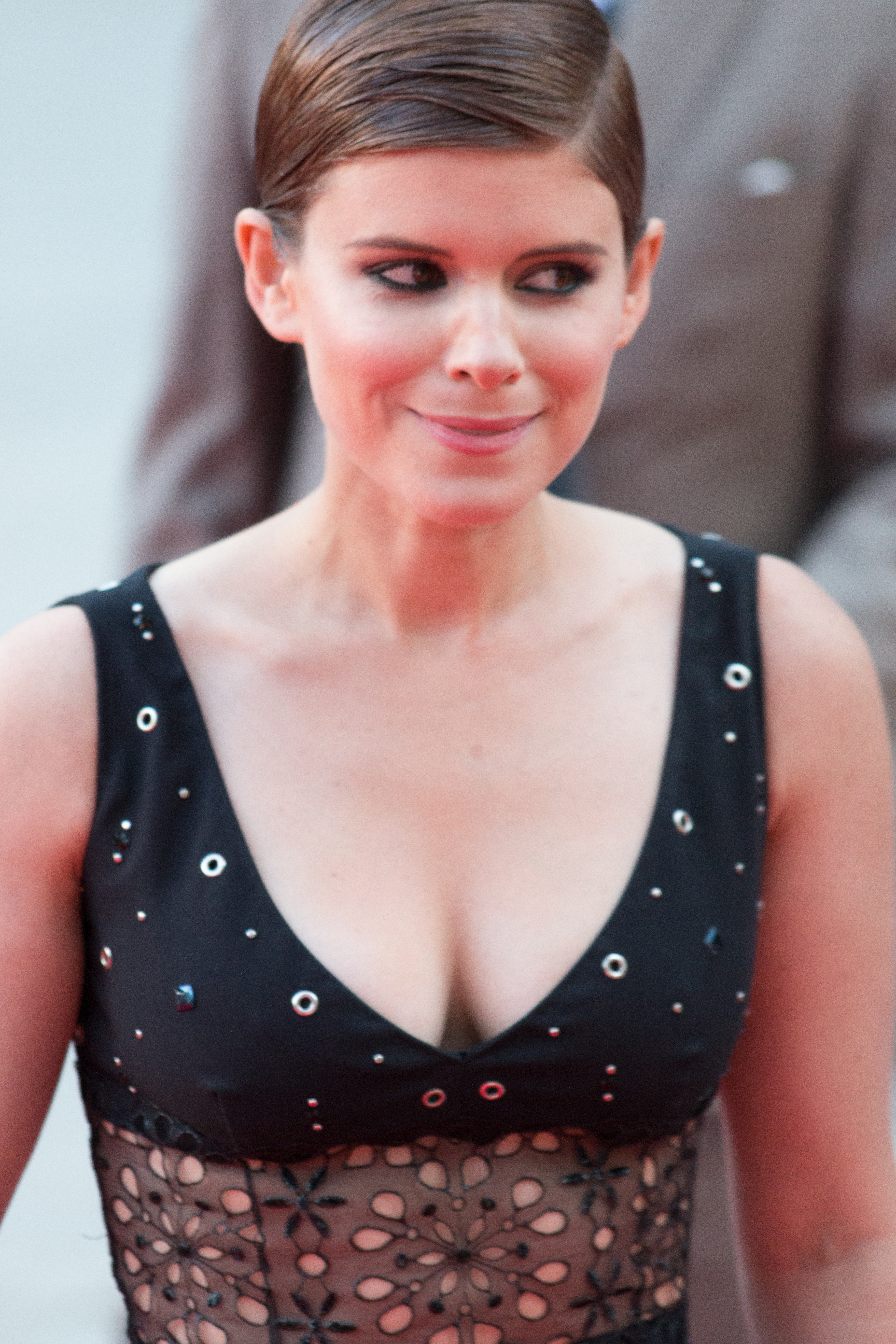 Kate Mara at the TIFF premiere of Man Down